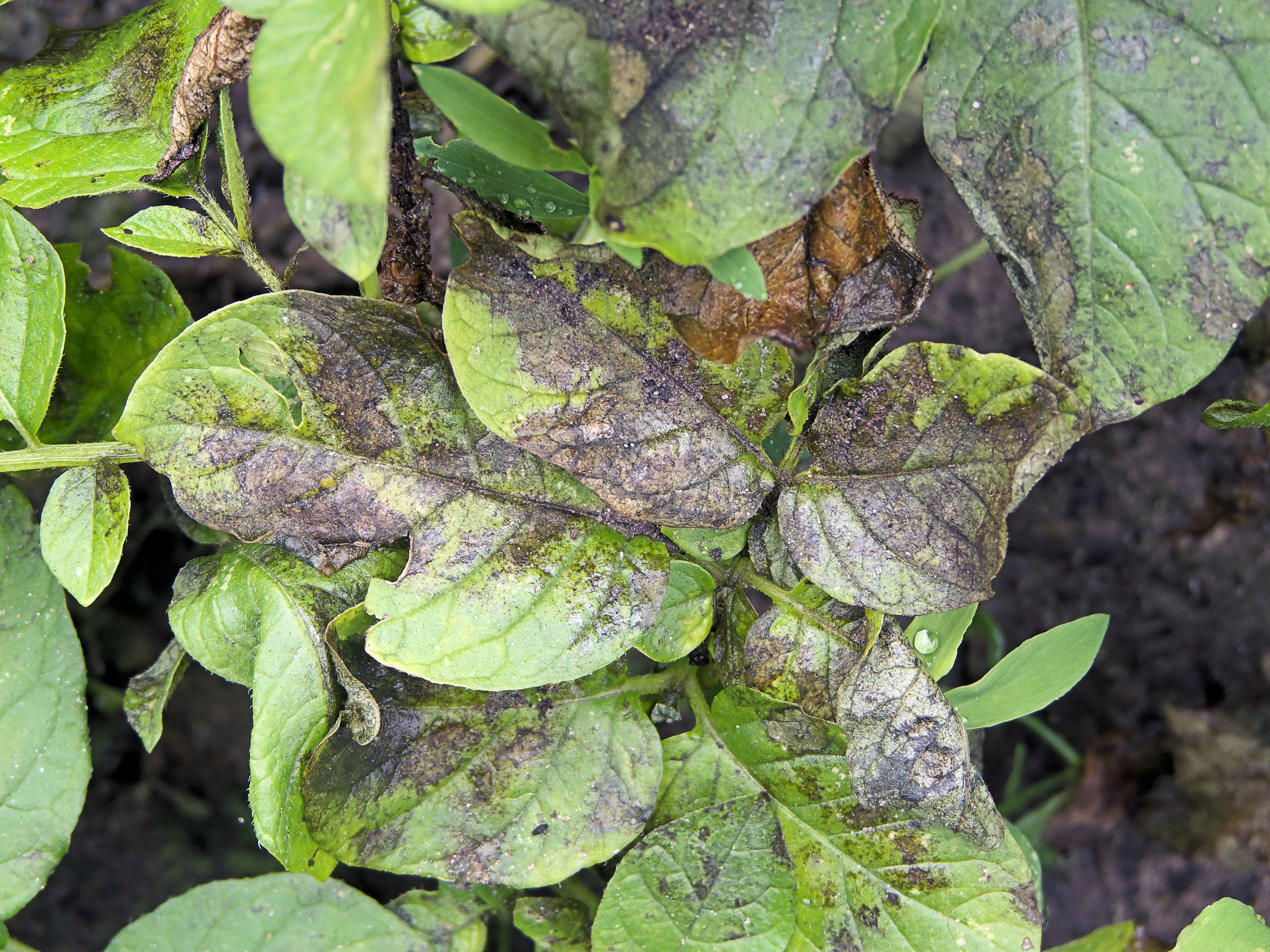 Phytophthora infestans potato Parel